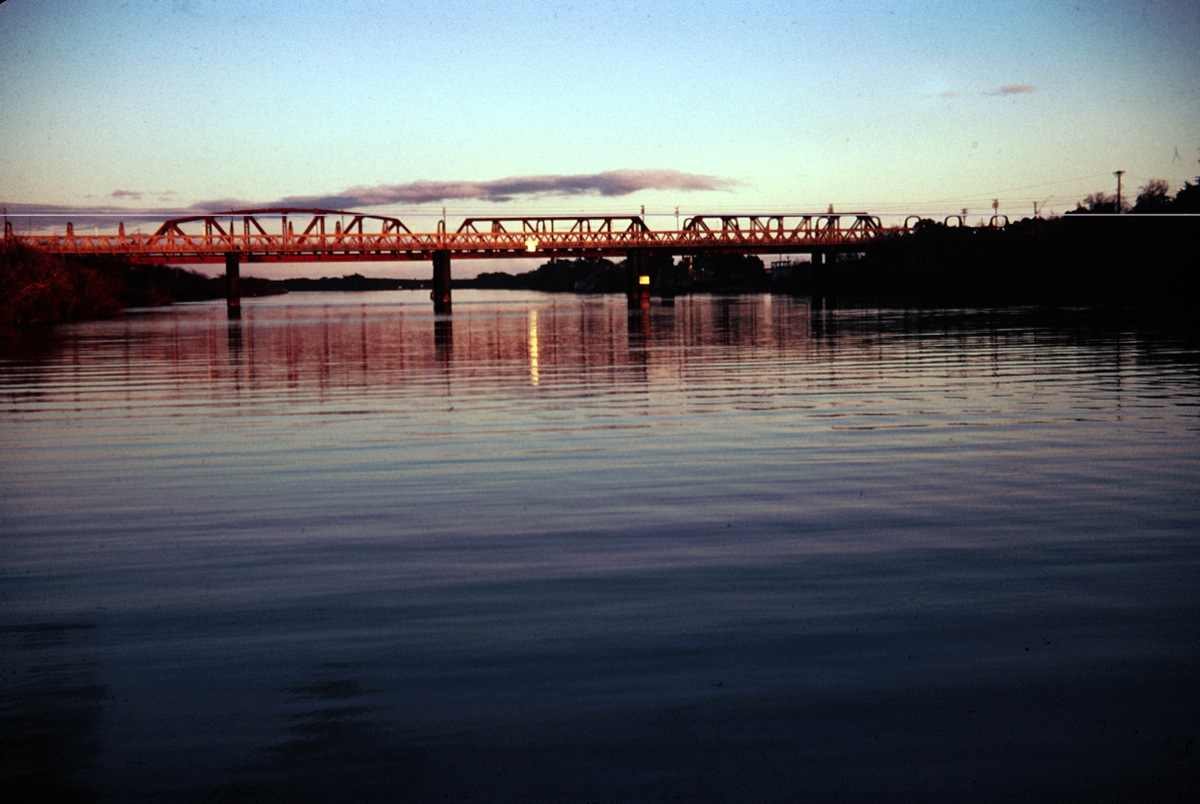 The sun setting on the Rail Bridge on the River Murray at Murray Bridge, taken in 1975.